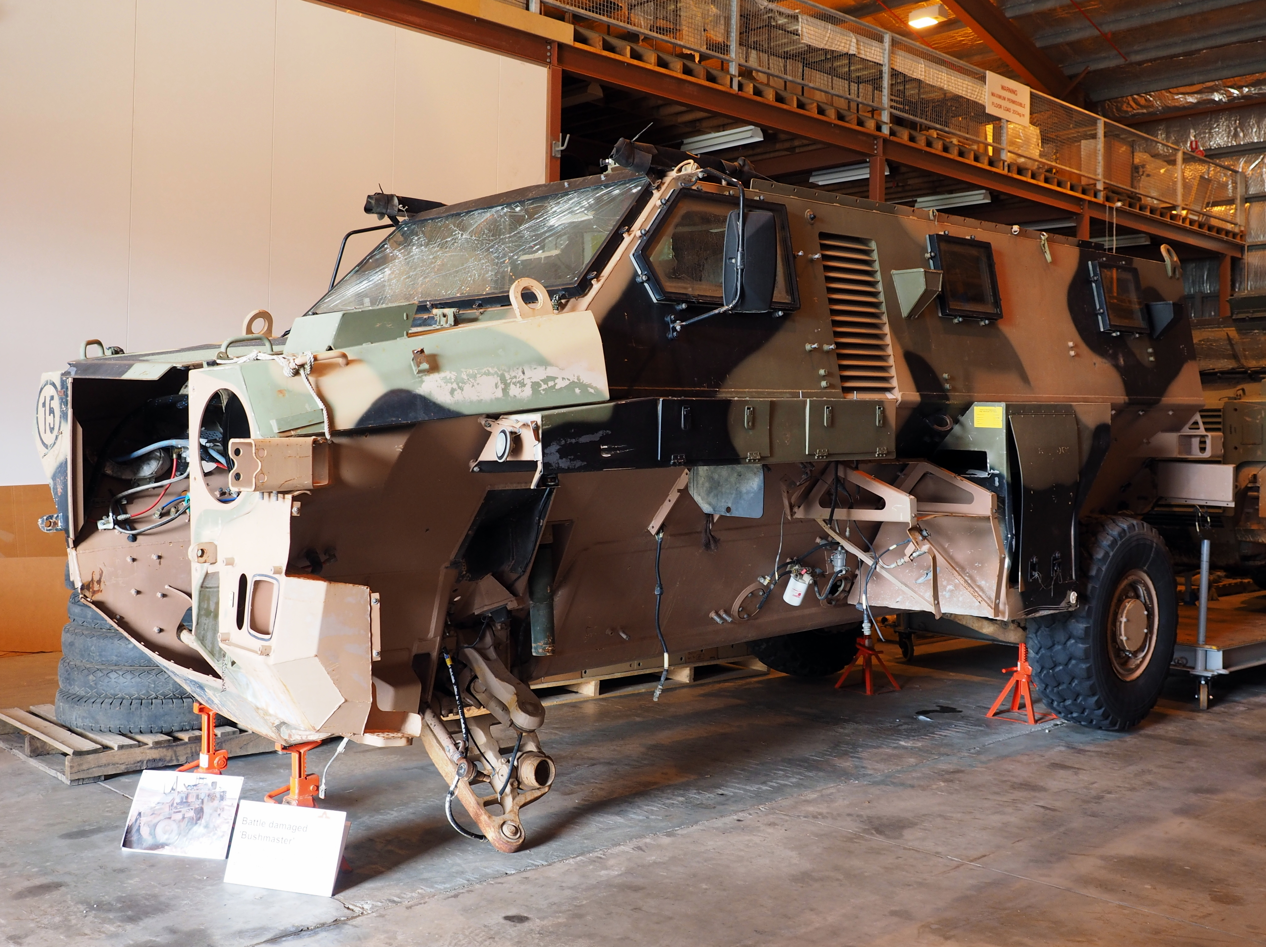 An Australian Army Bushmaster Protected Mobility Vehicle that was badly damaged by a bomb in Afghanistan at the Treloar Technology Centre